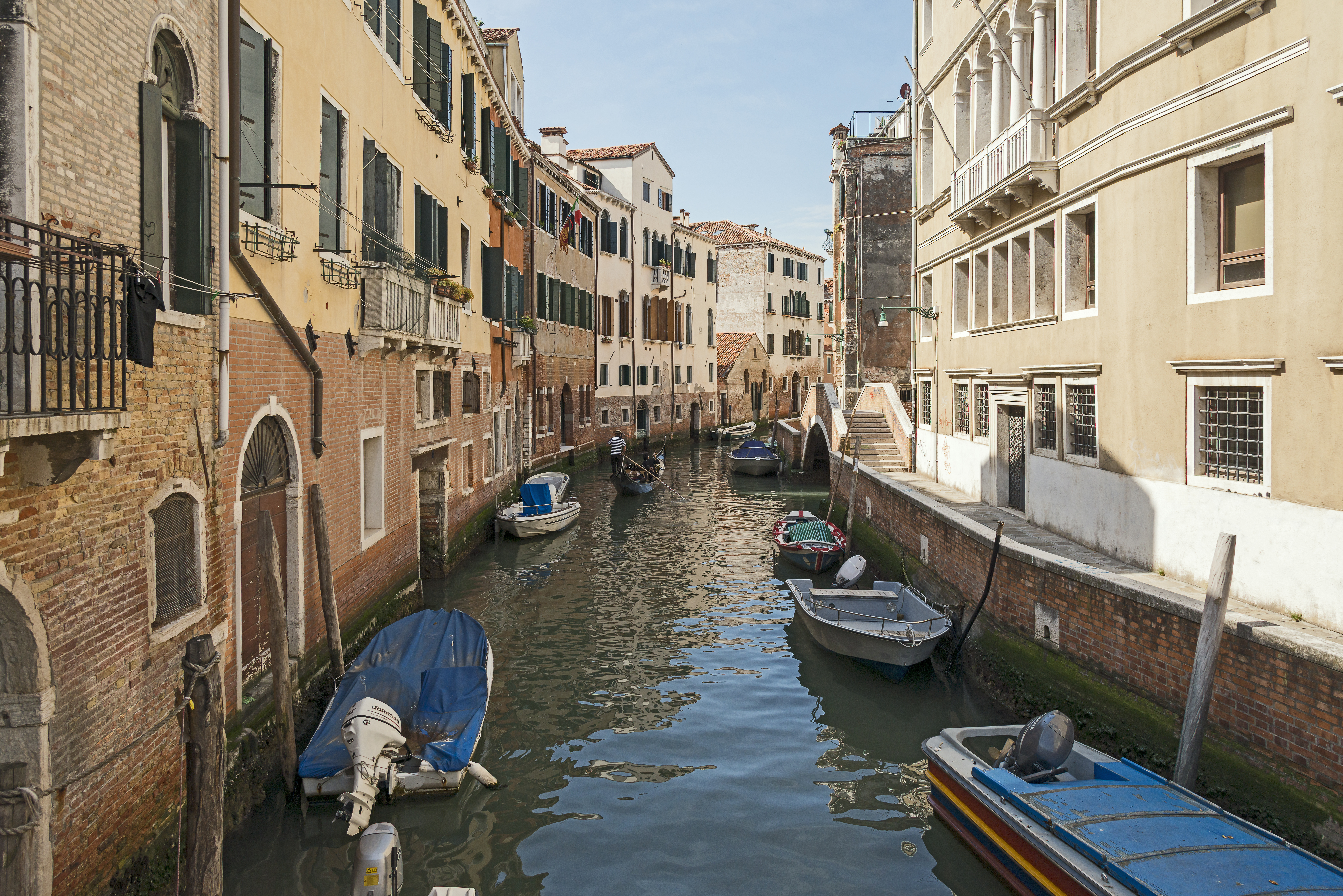 Rio di Santa Margherita Venice. View from Ponte del forno.